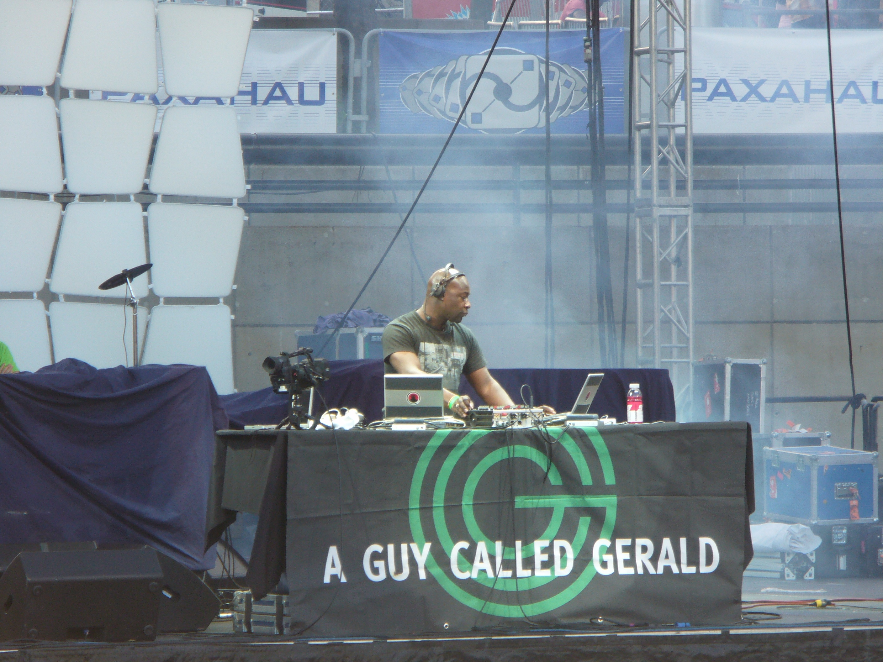 Manchester musician A Guy Called Gerald at DEMF in 2007.